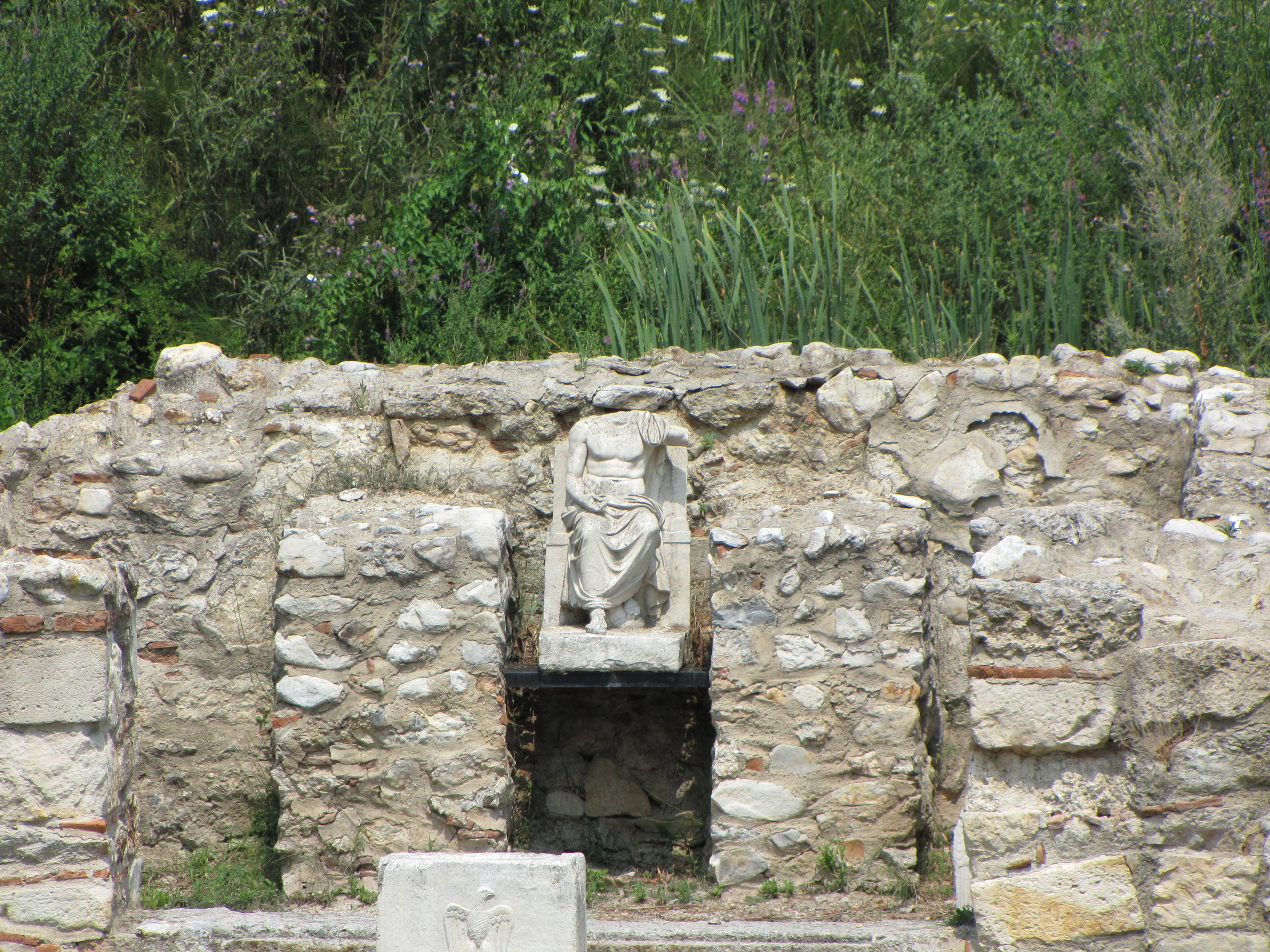 Zeus Hephaistos